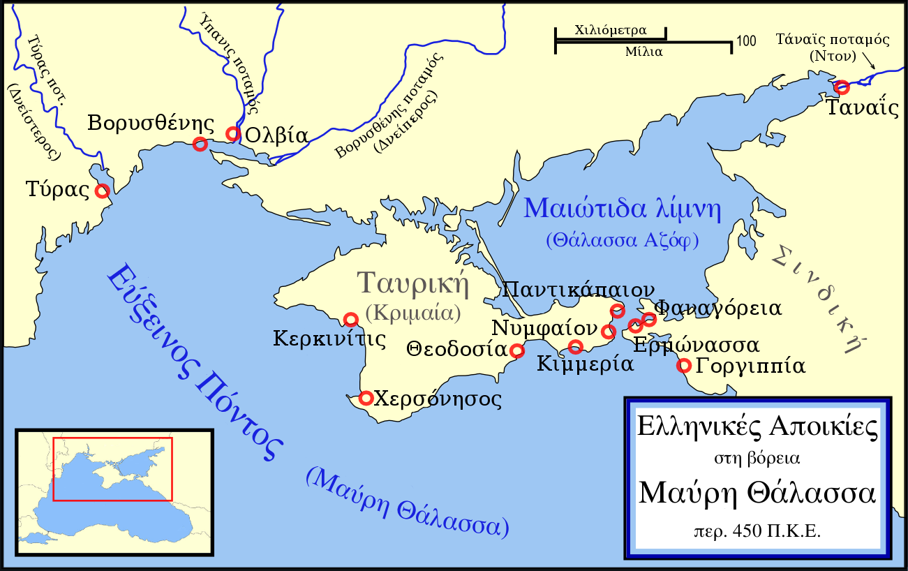 Map showing Ancient Greek colonies on the northern coast of the Black Sea.